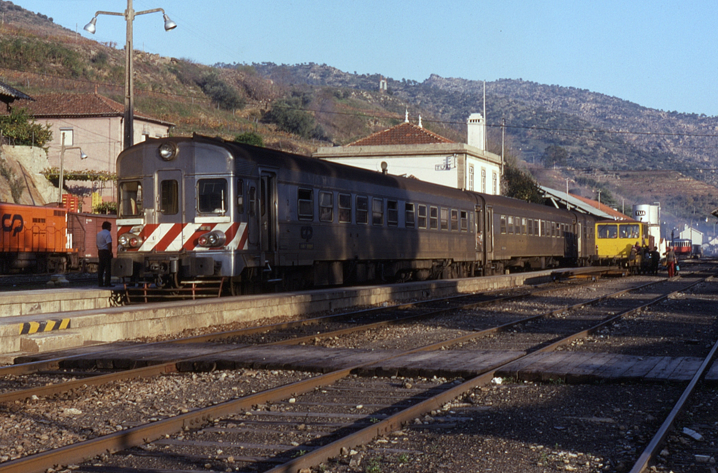 Back in 1993 the scenic Duoro valley line saw a mixture of both class 1401 hauled trains and these distinctive silver bodied 3-car DMUs. Seen at Tua on 9 November 1993 is set no. 0608.